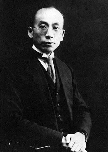 Xiao Youmei，Chinese musican.